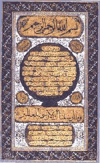 Hilya by unknown calligrapher, from